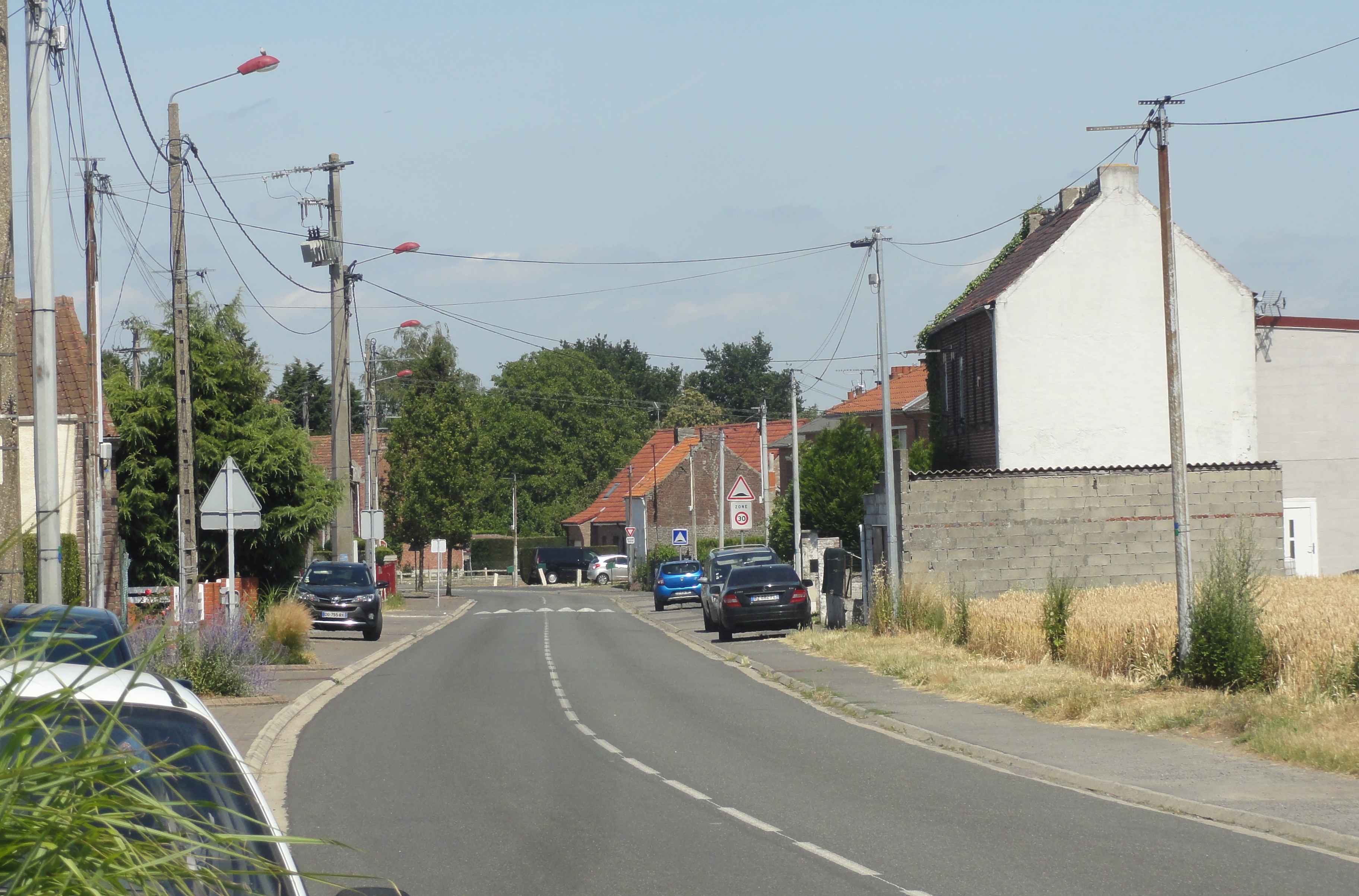 Depicted place: Fenain